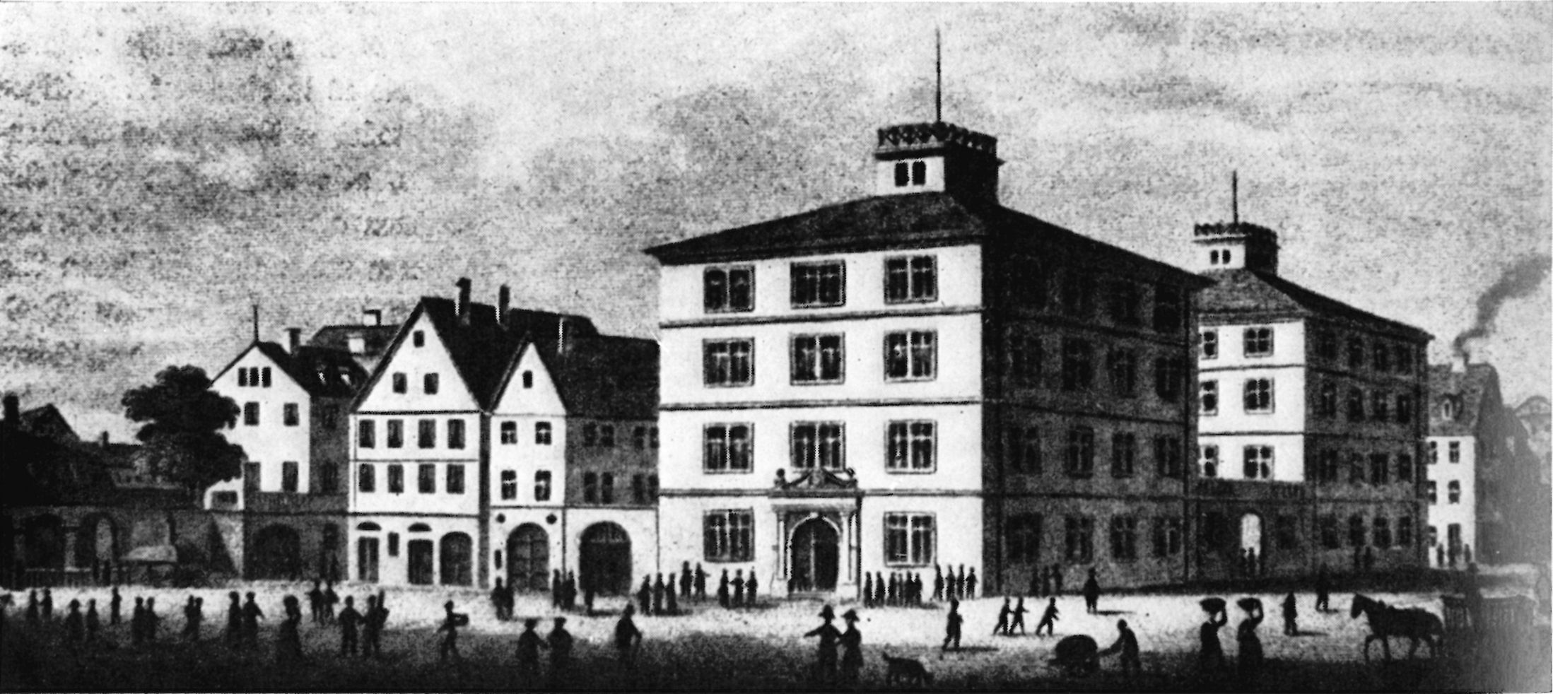 Stuttgart. Haus von Christian Landauer (1769-1845), Freund von Friedrich Hölderlin. Es ist das zweite Haus links vom großen Gymnasiumsgebäude.